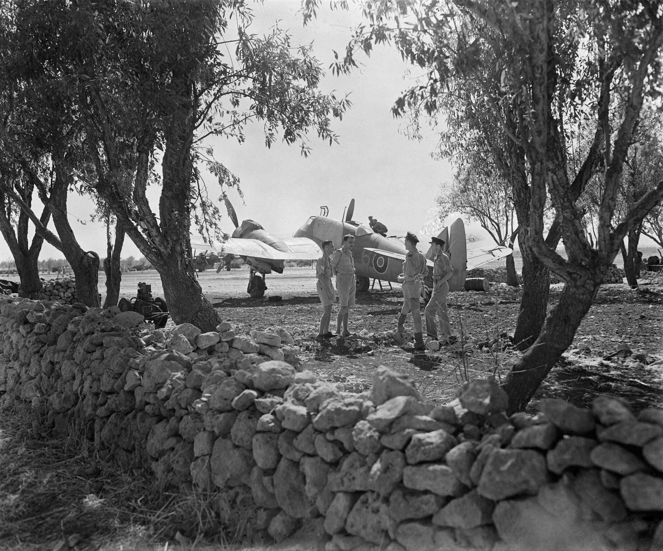 Royal Air Force- Italy, the Balkans and South-east Europe, 1942-1945. Bristol Beaufighter Mark VIFs of No. 600 Squadron RAF parked in dispersals among the olive trees at Cassibile, Sicily. In the foreground the Commanding Officer of the Squadron, Wing Commander C P "Paddy" Green (second from right), and another pilot, talk to ground crew who are servicing the aircraft.